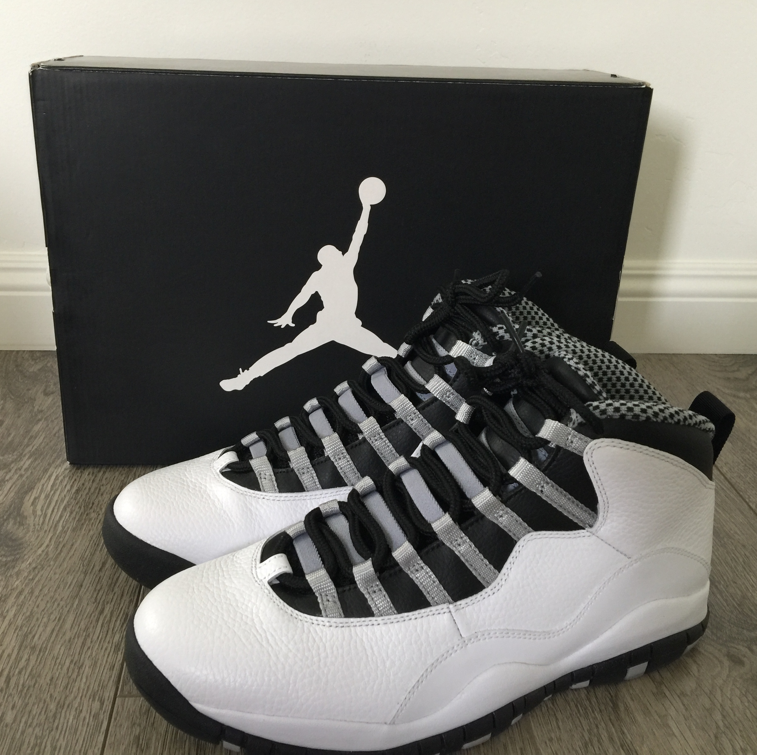 Nike Air Jordan X (Steel Colorway)